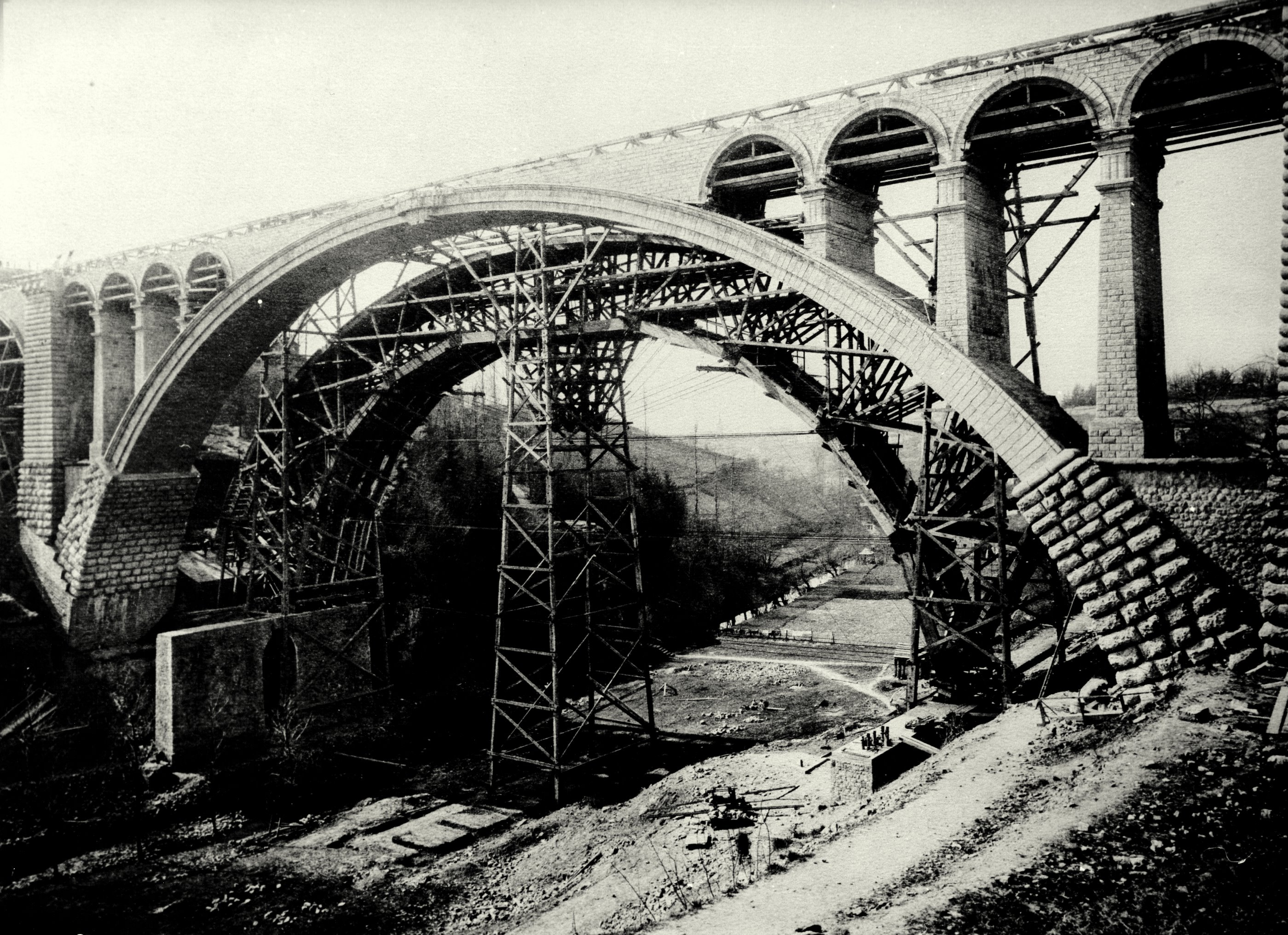 Construction of the Adolphe Bridge (1900-1903), documented by photographer Charles Bernhoeft.